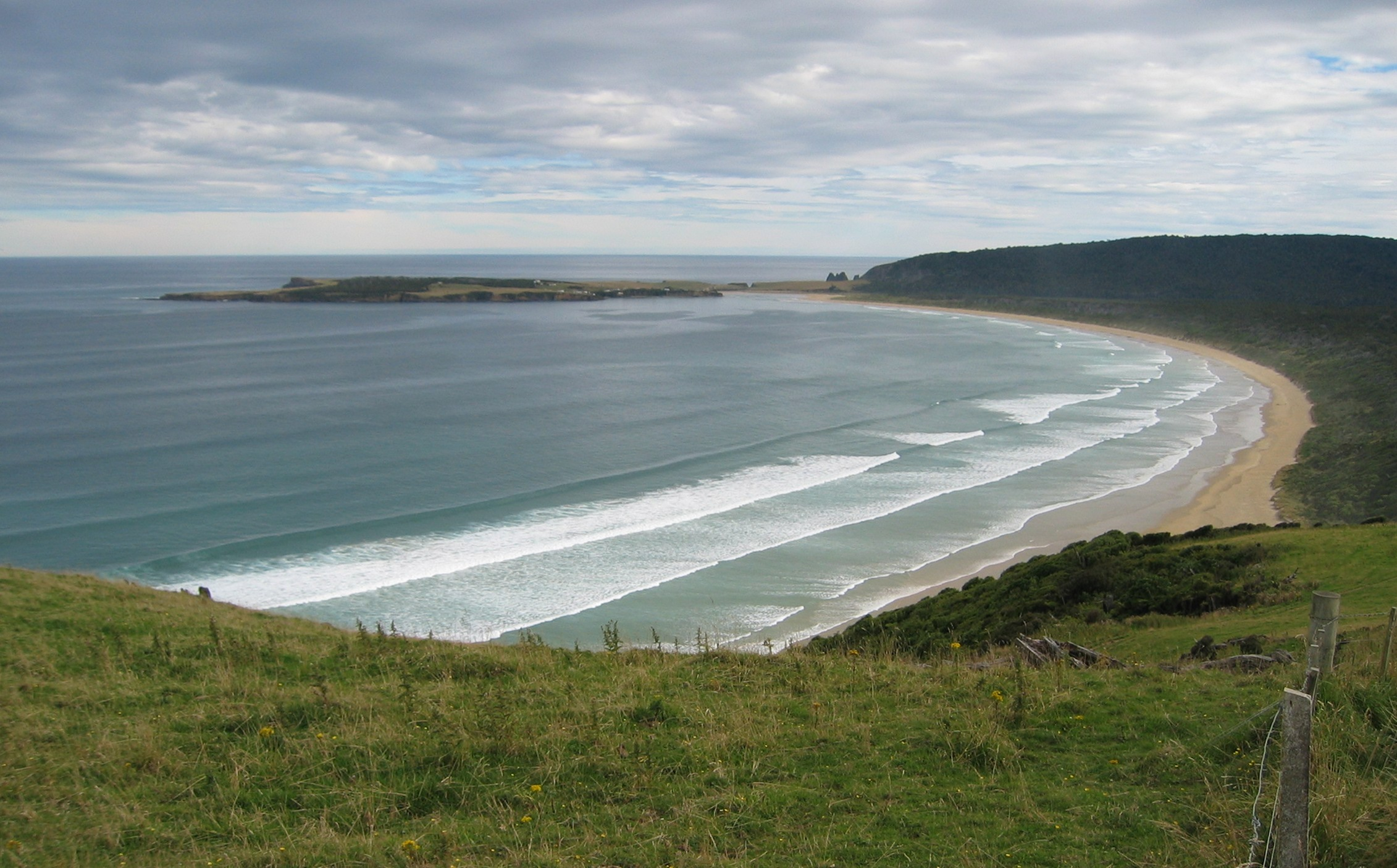 Looking over Tautuku Bay towards the Tautuku Peninsula, in the Catlins, New Zealand. The peninsula hosted a whaling station in the 1830s and 1840s.